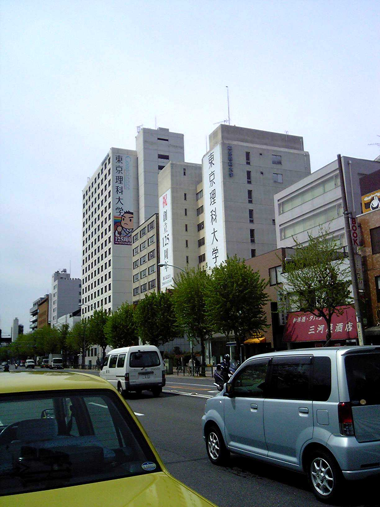 Tokyo University of Science